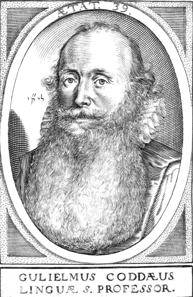 Wilhelm Coddaeus (1574-n.1625) Classical philologists